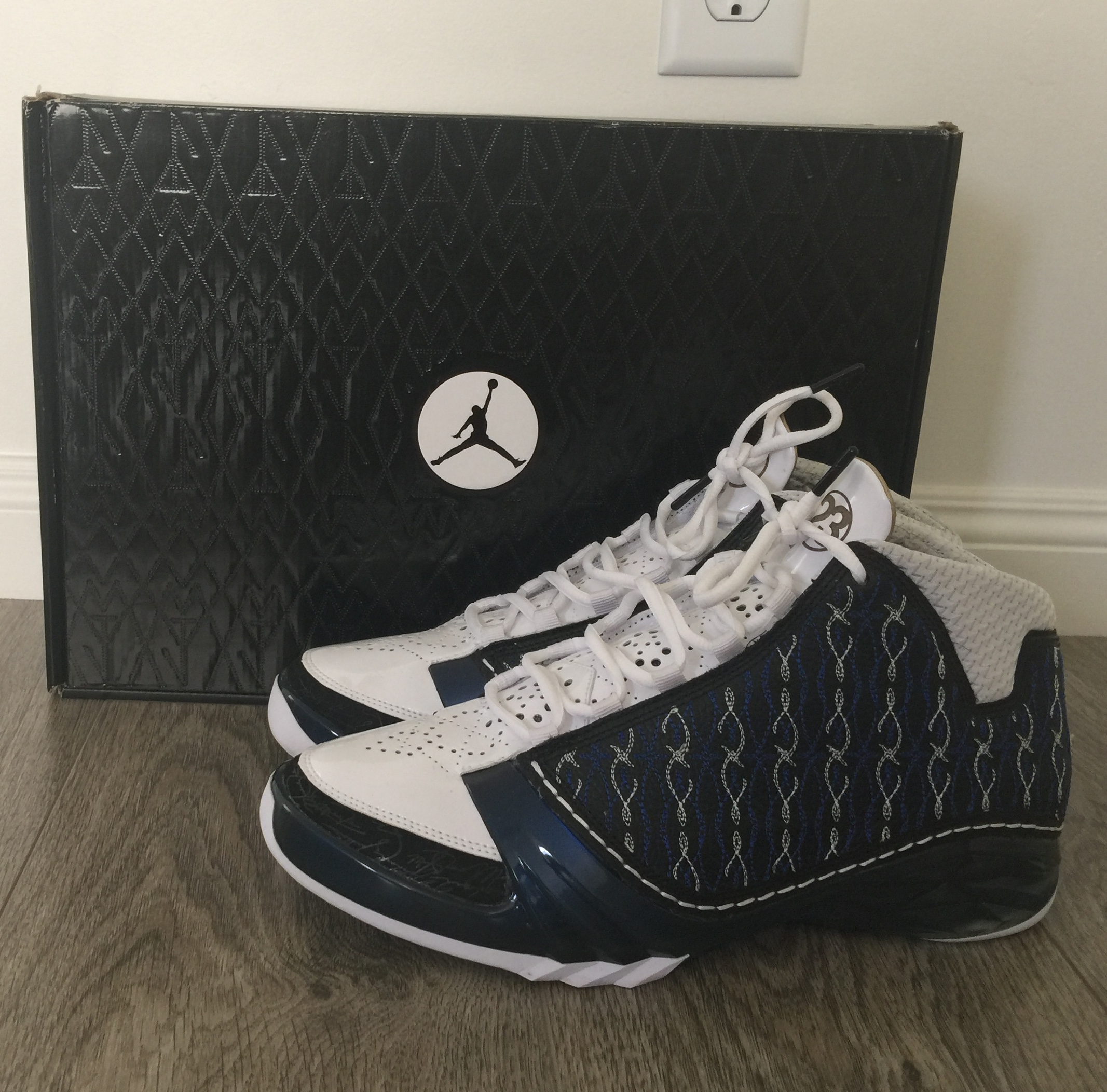 Air Jordan XX3, (Wizards Colorway)